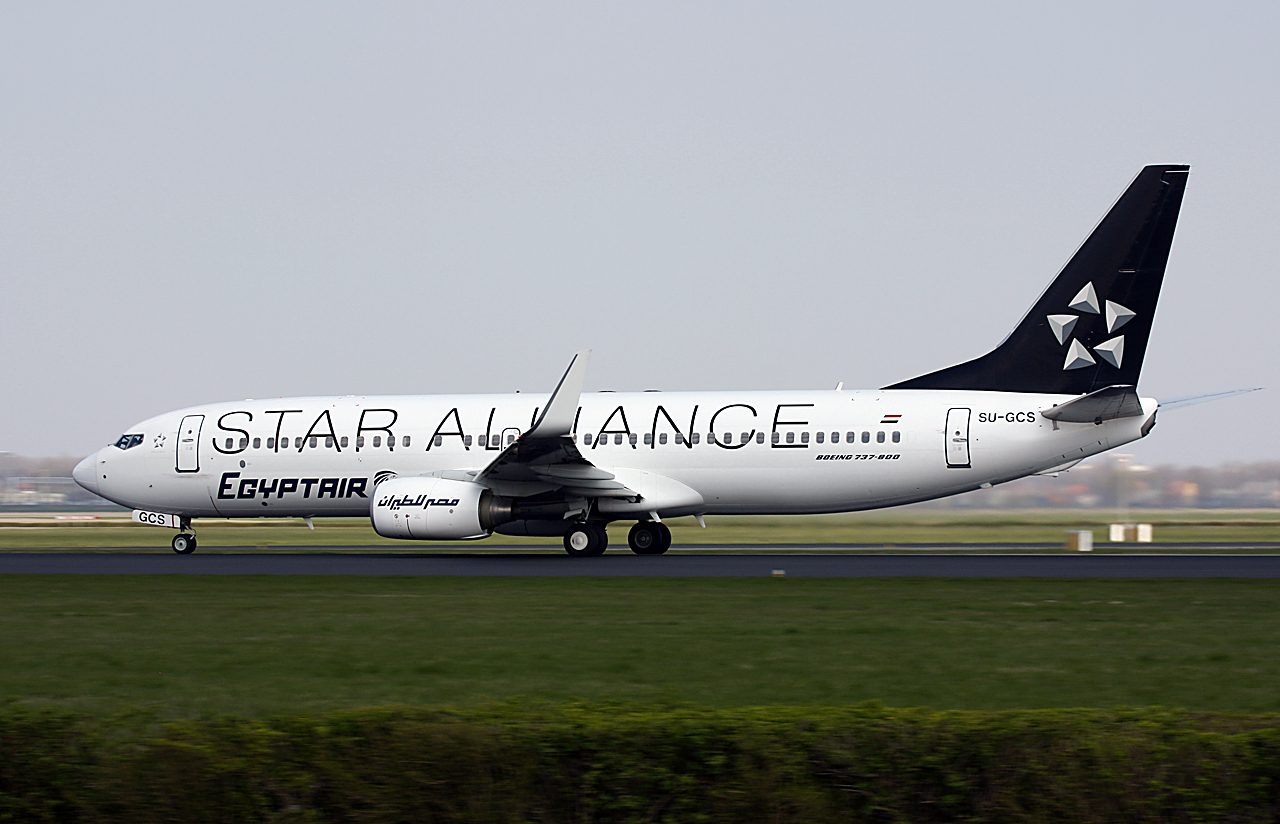 Boeing 737-800 registration SU-GCS of EgyptAir, at Amsterdam's Schiphol Airport, 14 April 2010